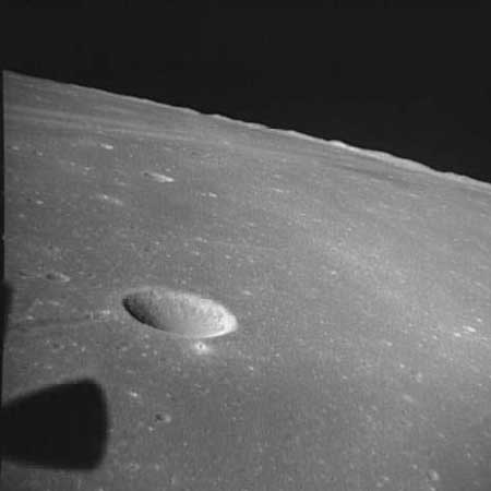 Secchi K satellite crater - Apollo 10's image AS10-29-4261. The double ray of the Messier twins visible in the frame's upper left section.